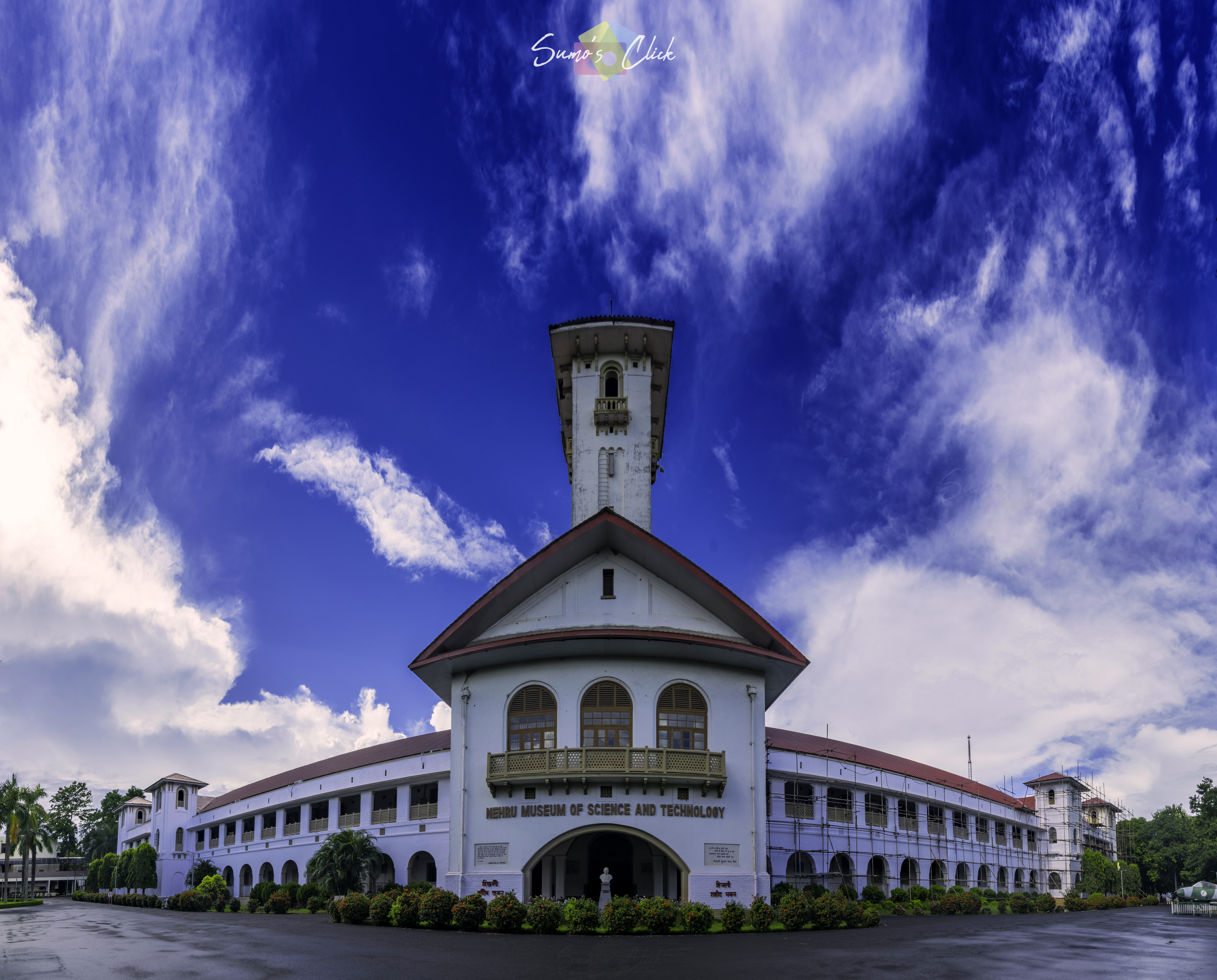 Nehru Museum. This photo was taken by Sumanta Bera (2019)